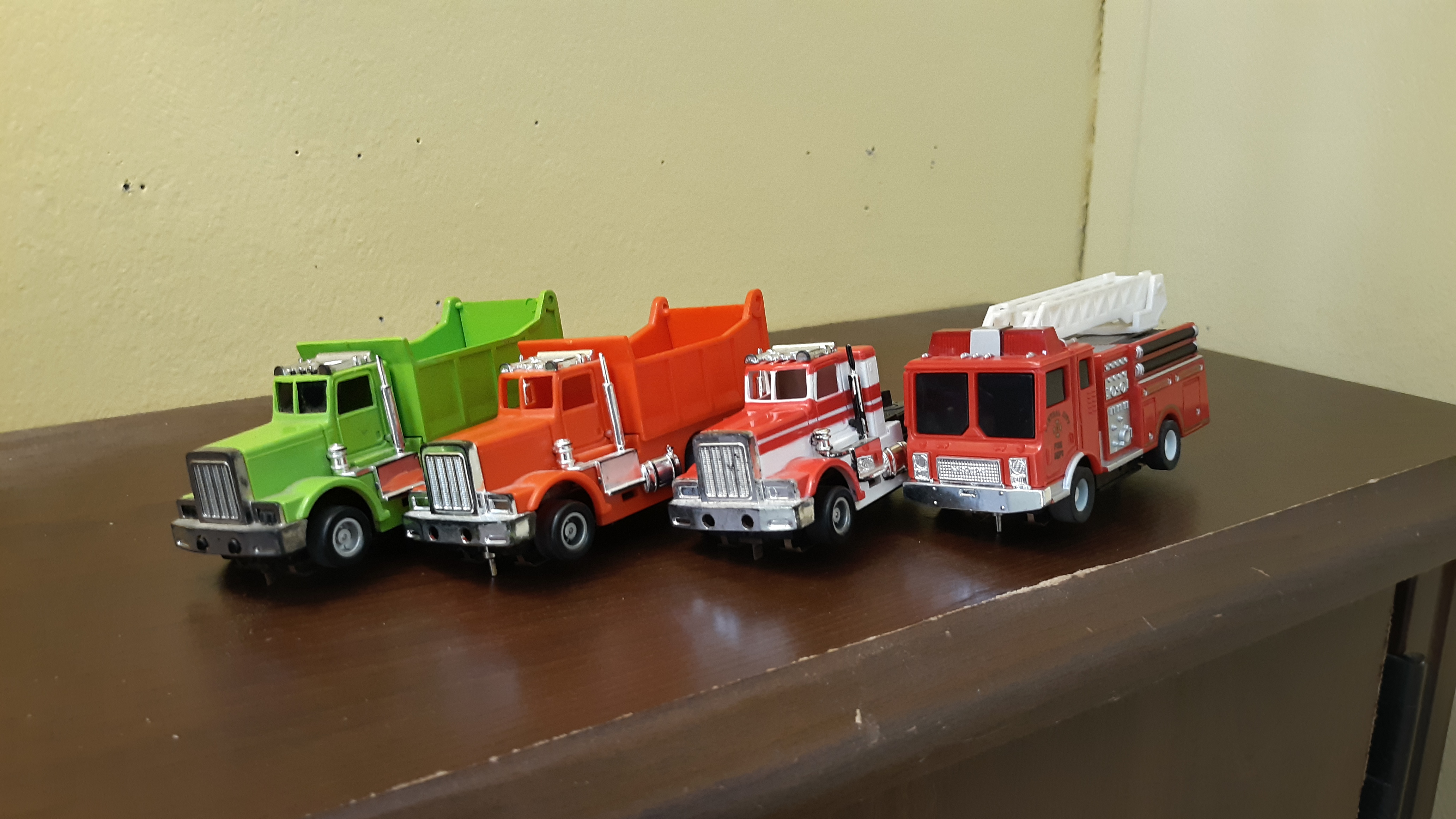 4 of the many US-1 trucks that I have